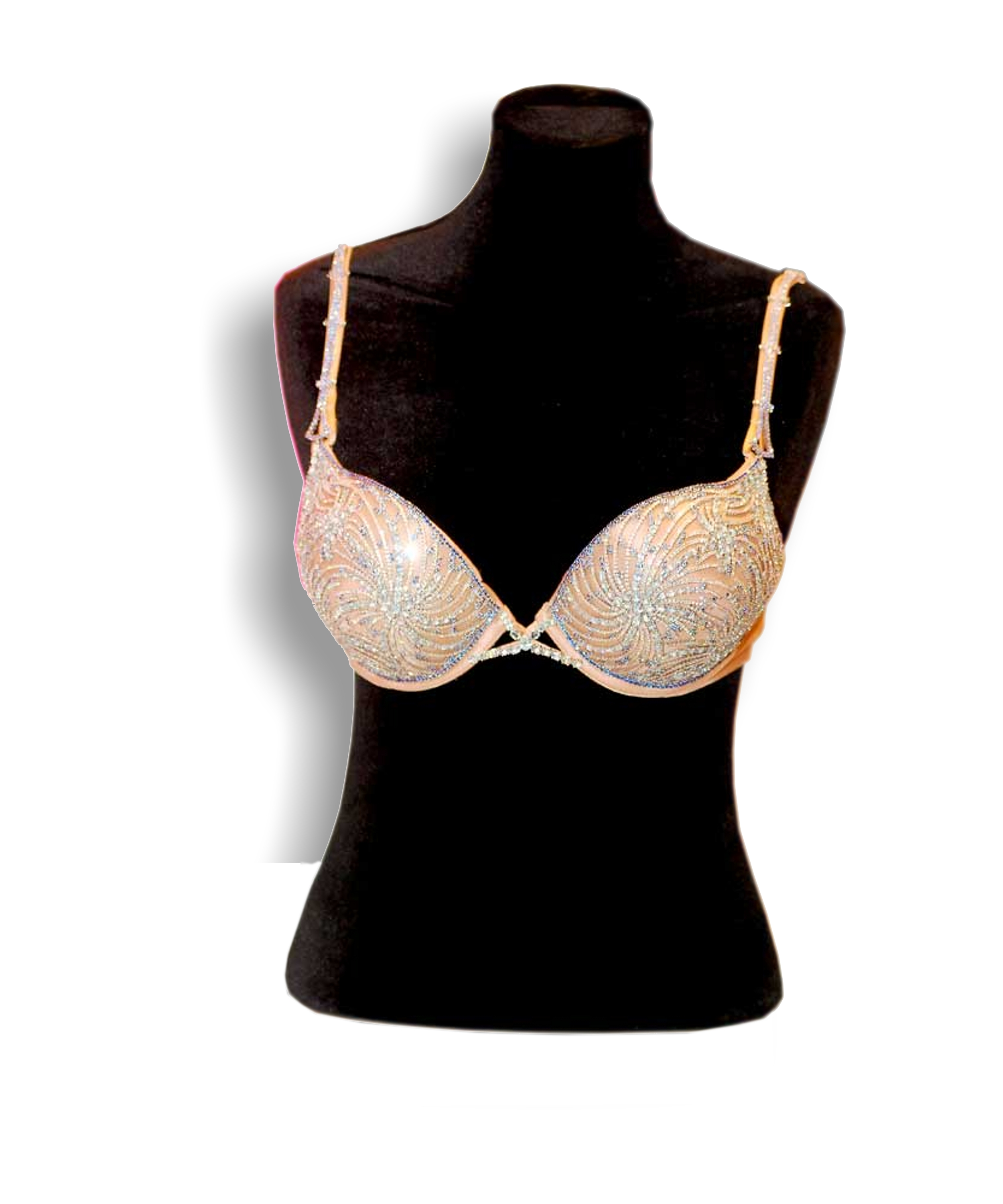 Victoria's Secret supermodel Adriana Lima showcased at Woodfield Mall, Schaumburg, IL, USA, on December 10, 2010, the $2 million Fantasy Bra designed by celebrity jeweler Damiani. Photo by Adam Bielawski